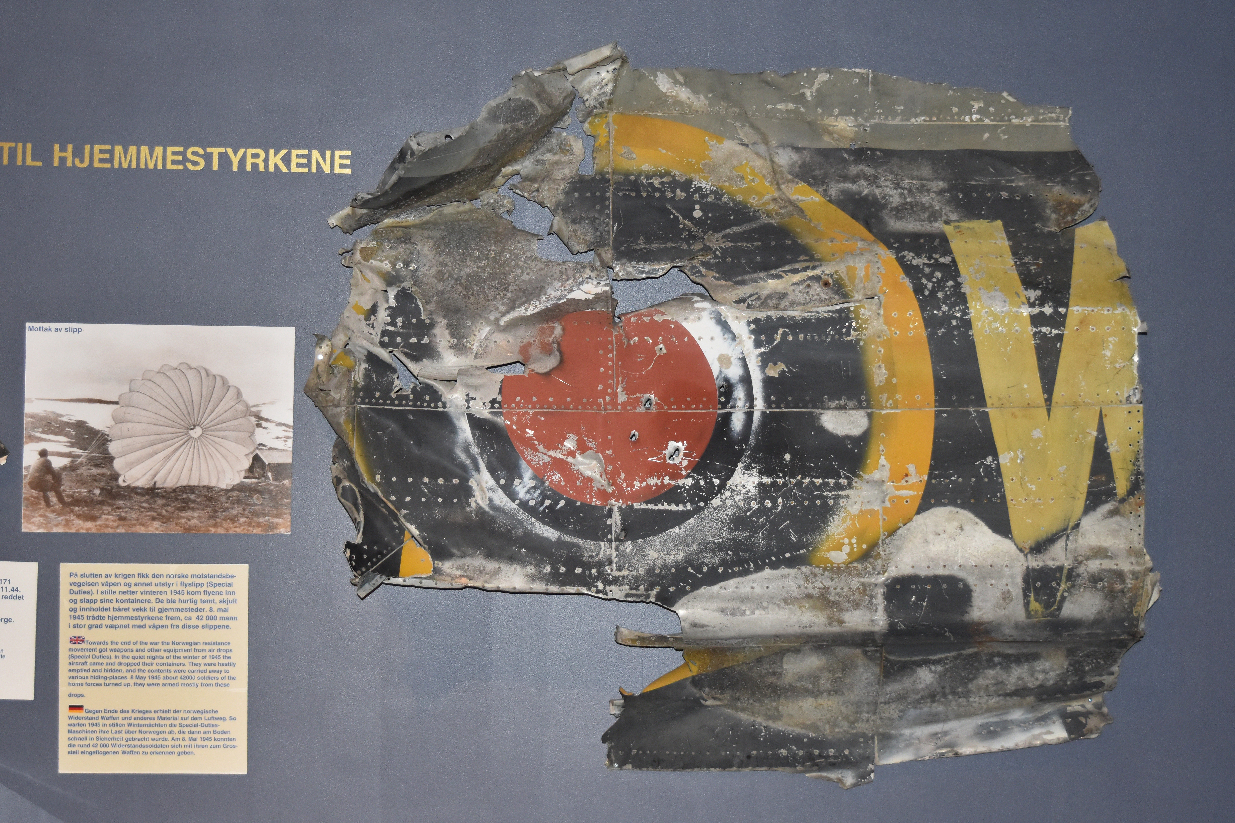 Stirling IV ‘LK171’ crashed at Skarfjell in Norway on 2nd November 1944. Operated by 295sqn, RAF, and based at RAF Rivenhall in Essex, it was the personal aircraft of Group Captain W.E.Surplice and was appropriately coded with his initials, ‘WES’ and was named “Shooting Stars”. It was on a supply drop mission for the Norwegian Resistance but crashed due to severe icing in poor weather. A fuselage panel and other small parts are on display in the Military Aircraft Hall of the Norsk Luftfartsmuseum (Norwegian Aviation Museum). Bodø, Northern Norway 24th May 2019 The following memorial is at the crash site:- “On the 2nd of November 1944 a British Short Stirling airplane crashed at Skarsfjell, due to icing. The plane should have dropped supplies to Milorg Section 16.1 in Numedal. The pilot of the aircraft, Group Captain Wilfred Edward Surplice DSO, DFC, managed to keep the plane airborne until the crew of six had parachuted to safety, but lost his own life in the crash.”